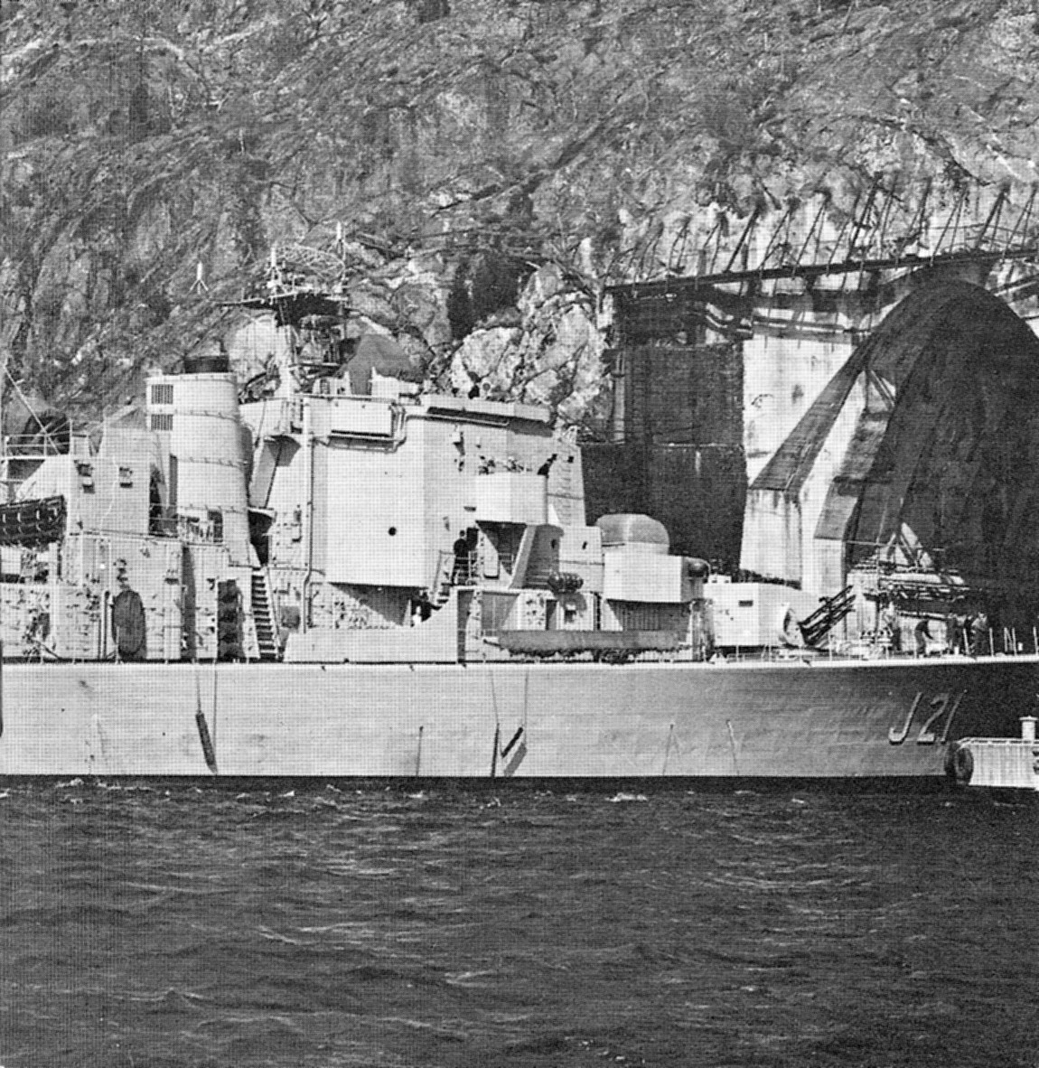 The Swedish destroyer HMS Södermanland on the way into a ship tunnel.